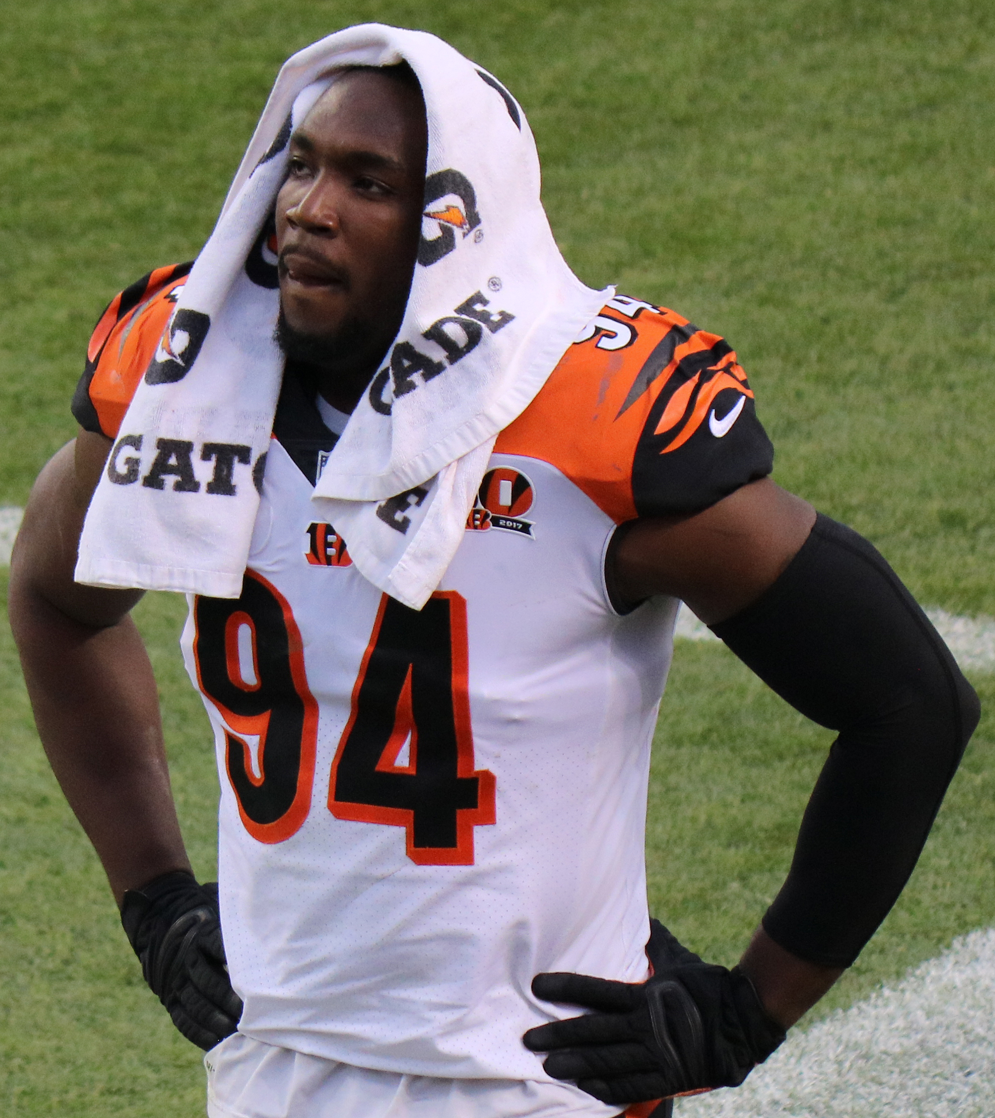 Chris Smith, a player on the National Football League.